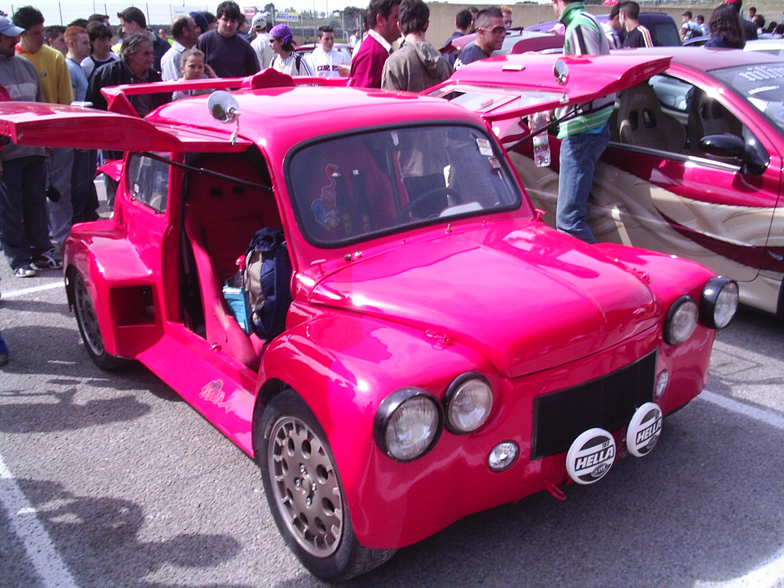 Tuned SEAT 600.